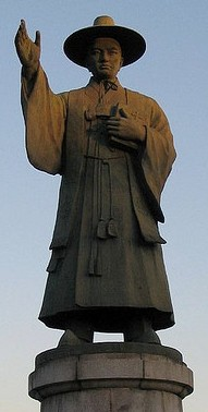 Andrew Kim Tae-gŏn (1821–1846), first Korean Roman Catholic priest